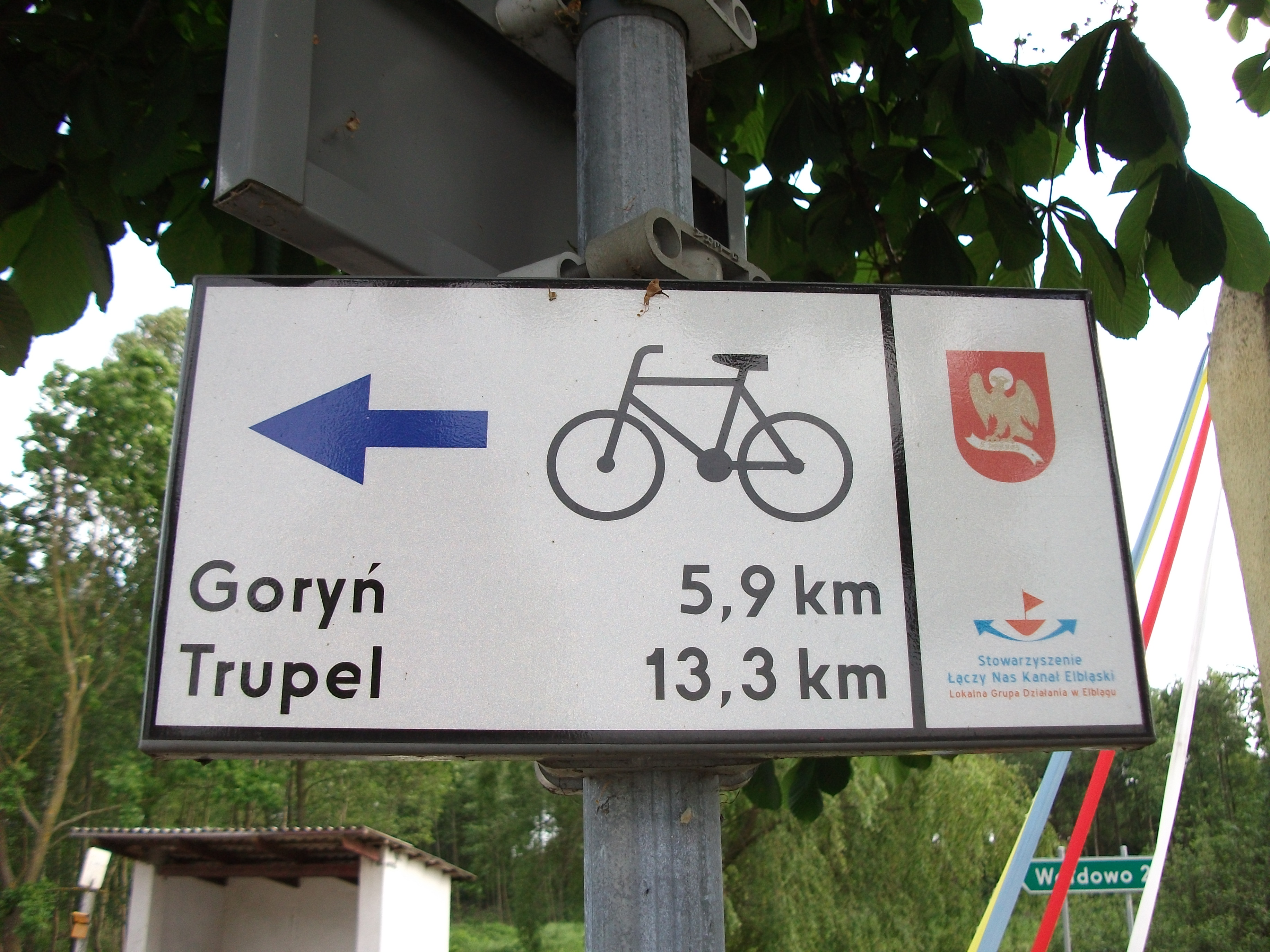 blue bike trail Kisielice – Krzywka – Wałdowo – Goryń – Trupel